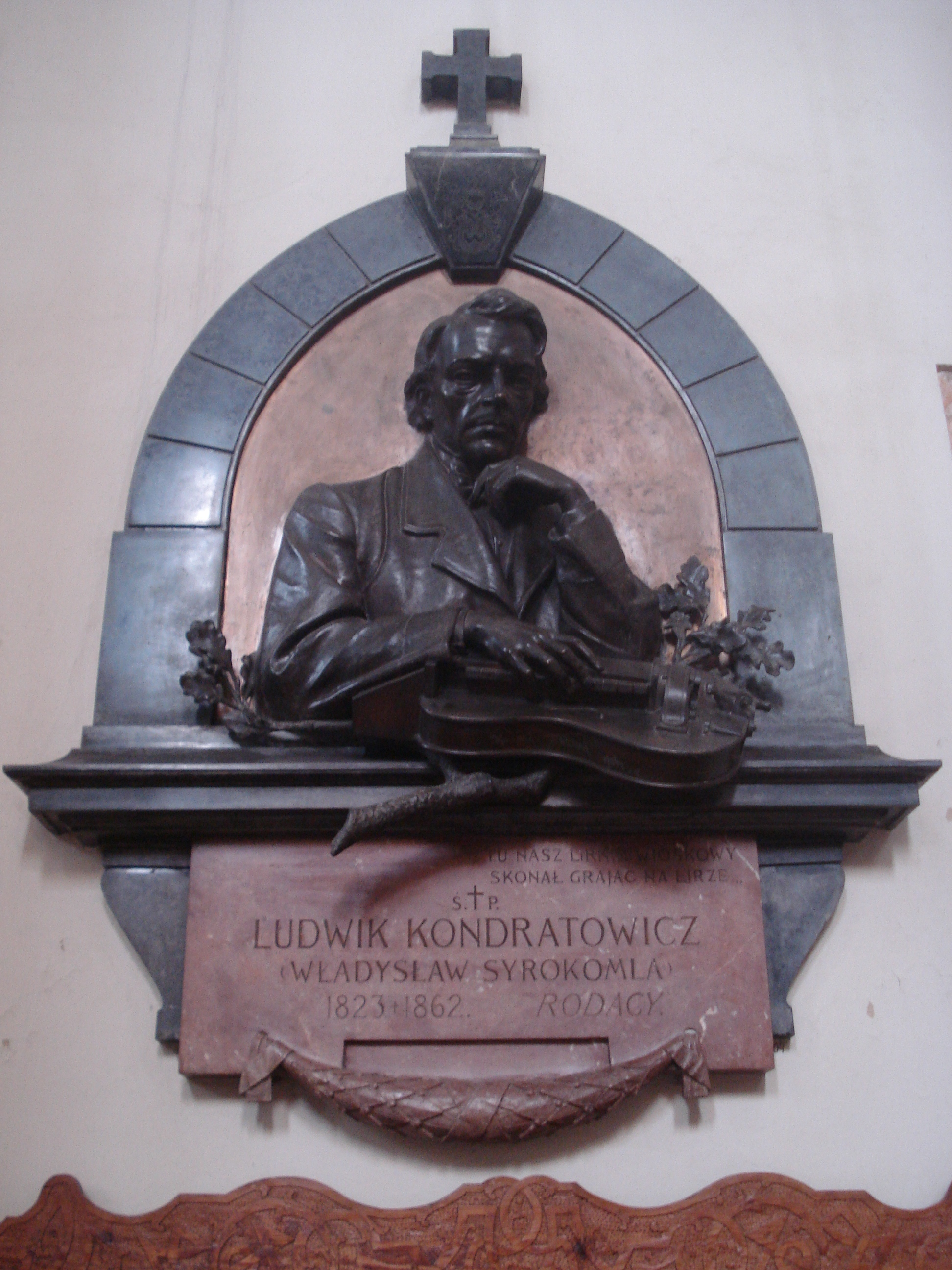 Memorial of Władysław Syrokomla, in the Church of St. Johns (Vilnius). Opened in 1908.